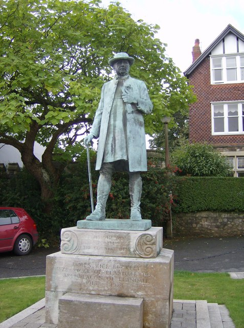 James Rice Buckley Inscription reads: "Man he was to all the country dear" James Rice Buckley 1878 Vicar of Llandaff 1924 Archdeacon of Llandaff 1913 - 1924